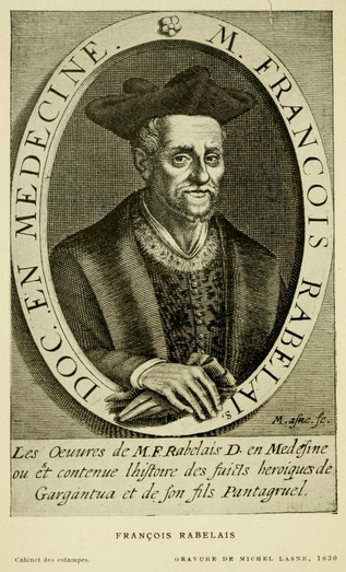 Francois Rabelais reproduction, Gargantua et Pantagruel 1913